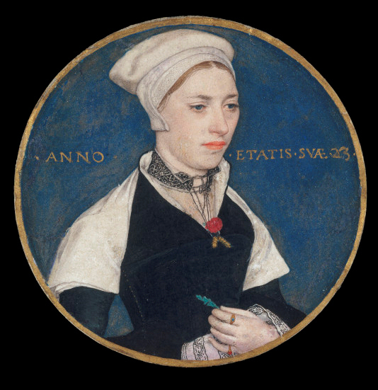 Portrait of Jane Small, about 1540, Hans Holbein (c. 1497–1543), V&A Museum no. P.40&A-1935. Watercolour on vellum, stuck to a playing card with five of diamonds. Place – England. Dimensions – Diameter 8 cm (framed). This miniature portrait is also sometimes called Jane Pemberton. Jane Small (c. 1518–1602) was the daughter of Christopher Pemberton, a Northamptonshire gentleman. She married Nicholas Small, a London cloth merchant. The sitter has been identified from the Pemberton coat of arms at the back of the miniature, with the reservation that this was added in the 17th century.[1] The date of the painting is not known for certain, but the inscription records the sitter as in her 23rd year. The simplicity of her clothing reflects her relatively modest status; the red carnation may represent betrothal.[2] In the view of art historian Graham Reynolds, Holbein "portrays a young woman whose plainness is scarcely relieved by her simple costume of black-and-white materials, and yet there can be no doubt that this is one of the great portraits of the world. With remarkable objectivity Holbein has not added anything of himself or subtracted from his sitter's image; he has seen her as she appeared in a solemn mood in the cold light of his painting-room".[3] References ↑ Roy Strong, Artists of the Tudor Court: the Portrait Miniature Rediscovered, 1520–1620, London: Thames & Hudson/Victoria & Albert Museum, 1983, ISBN 0905209346, p. 47. ↑ Susan Foister, Holbein in England, London: Tate, 2006, ISBN 1854376454, p. 49. ↑ Graham Reynolds, English Portrait Miniatures, Cambridge: Cambridge University Press, 1988, ISBN 0521339200, p. 7.